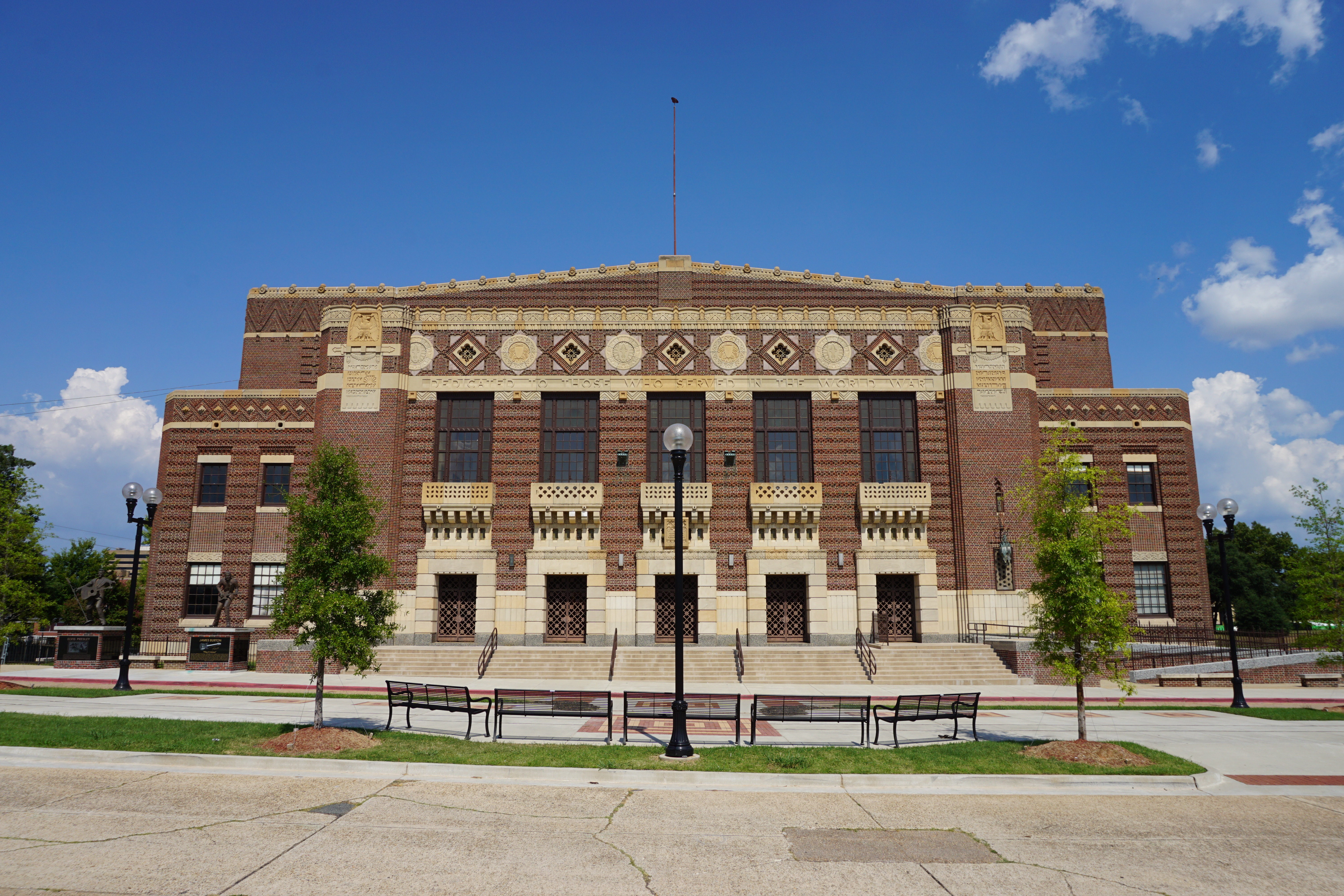 Shreveport Municipal Auditorium in Shreveport, Louisiana (United States).